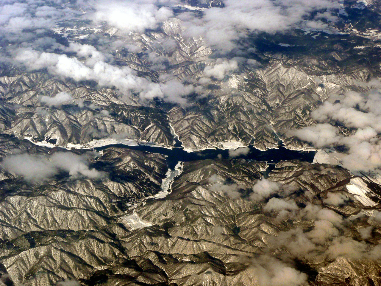 Aerial photo of Lake Moniwa in winter